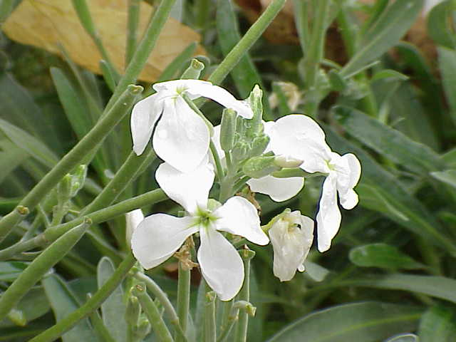 Species: Matthiola incana Family: Brassicaceae Image No. 1